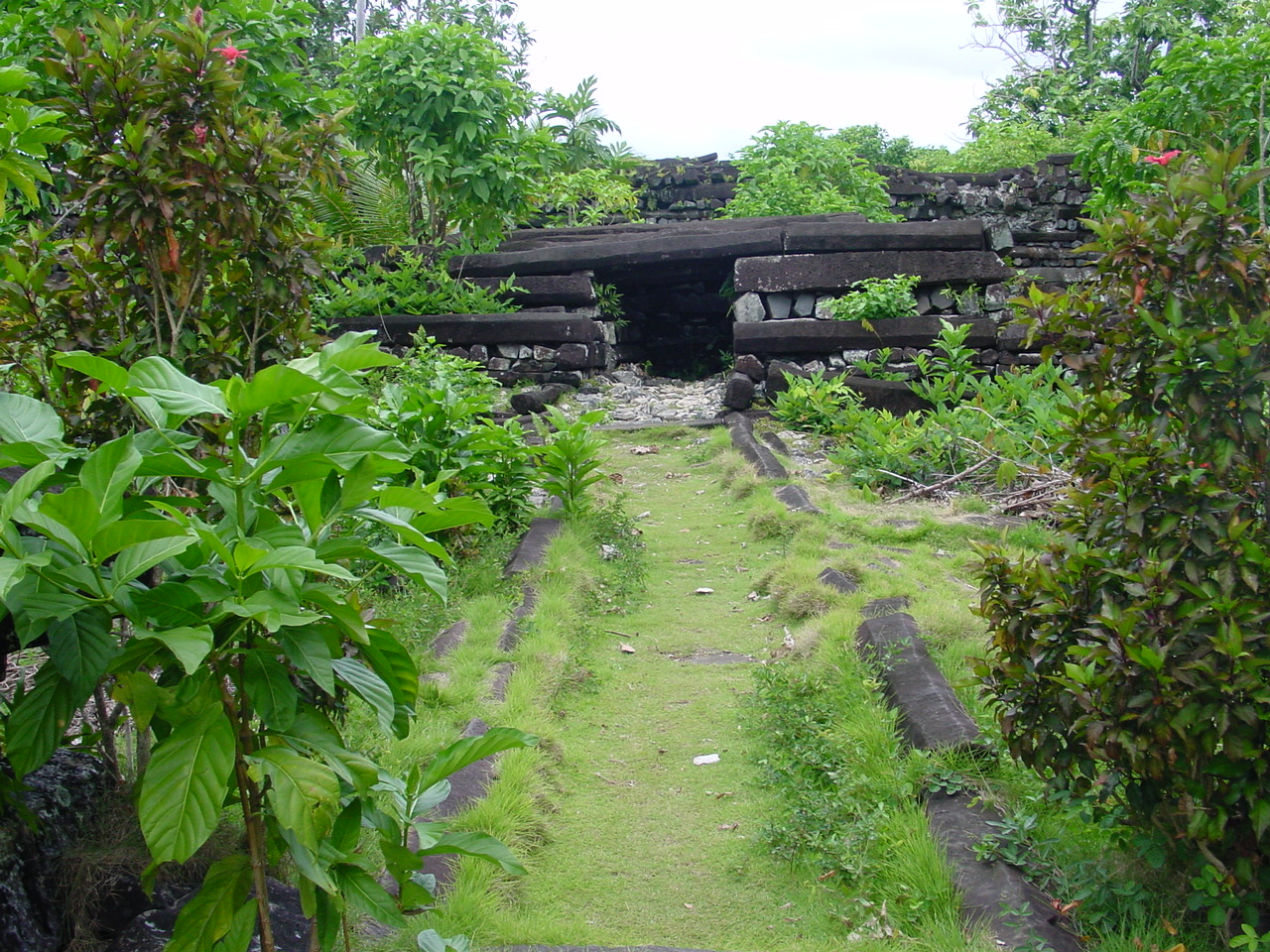 Nan Madol ruins in Pohnpei